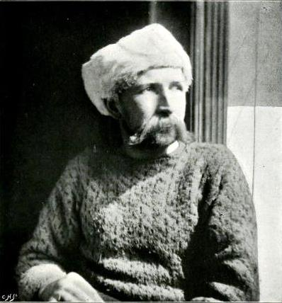 Adolph Juell (1860–1909), member of the first Fram-Expedition